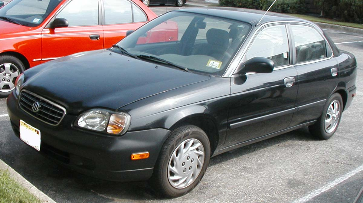 1999-2002 Suzuki Esteem photographed in USA.